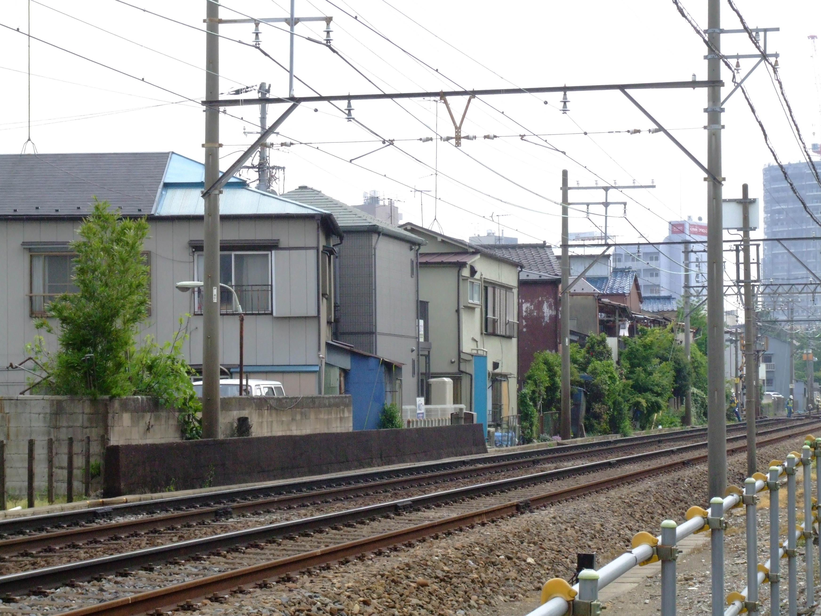 The vestige of Mukojima station platform (abolished at 1947) on the Keisei Oshiage Line and Keisei Shirahige Line (Shirahige line was also abolished at 1936)